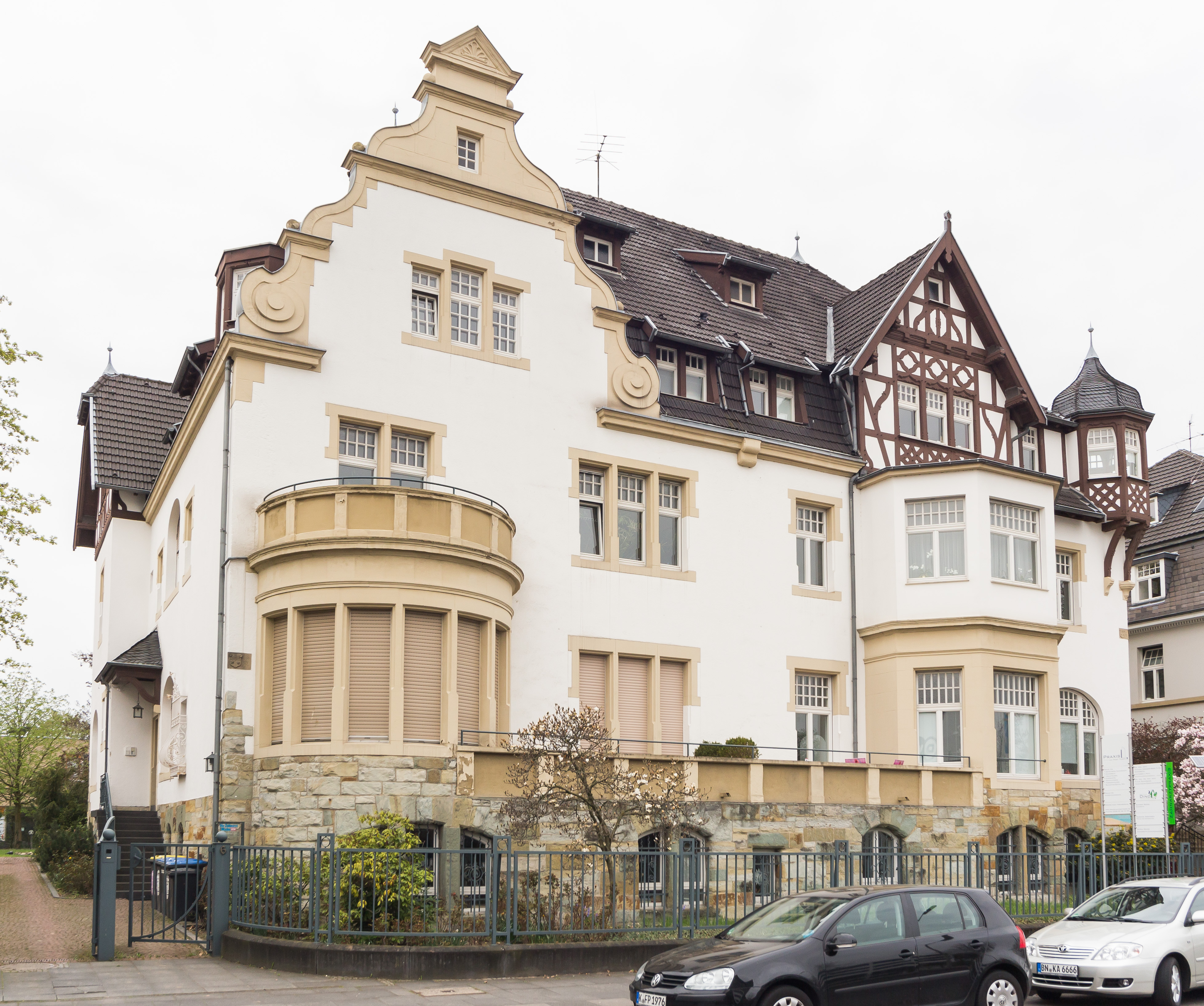 Double villa Kurt-Schumacher-Straße 4/6, Bonn (6 left, 4 right), view from east